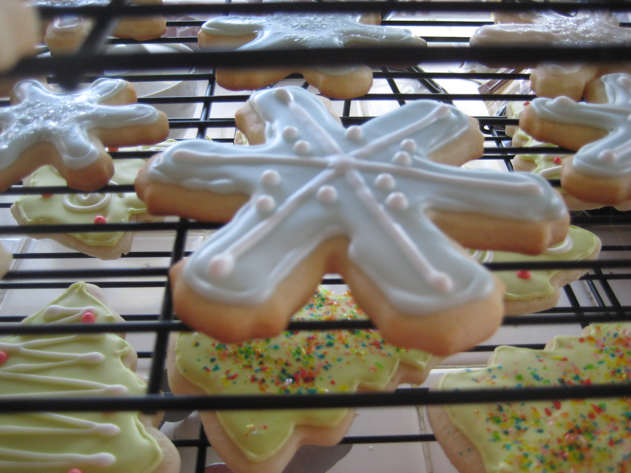 Snowflake Christmas sugar cookies decorated with royal icing.